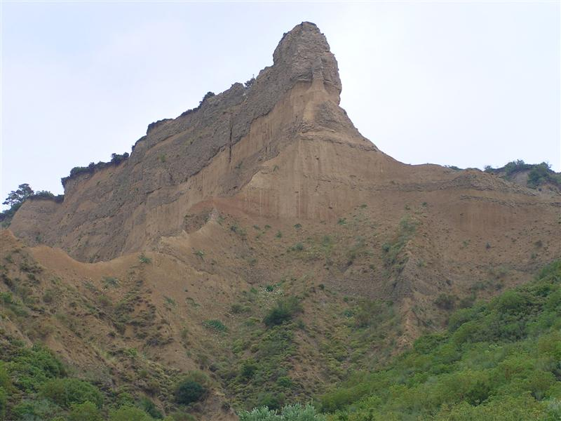 A picture of the geographical landform "The Sphynx", at the Gallipoli battlefield, Turkey